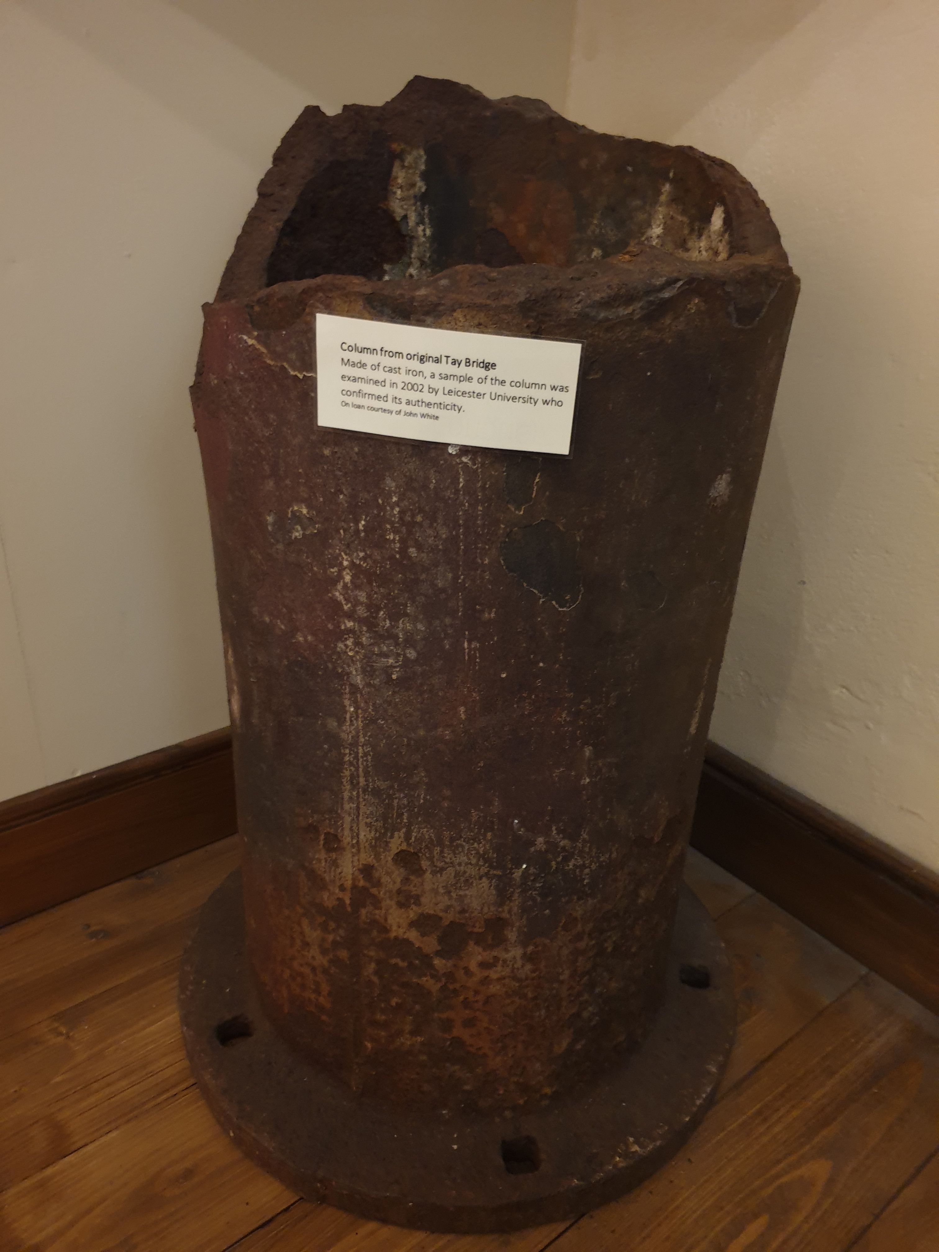 Part of the original Tay Bridge on display at the Dundee Transport Museum. Reads: Column from original Tay Bridge Made of cast iron, a sample of the column was examined in 2002 by Leicester University who confirmed its authenticity. On loan courtesy of John White